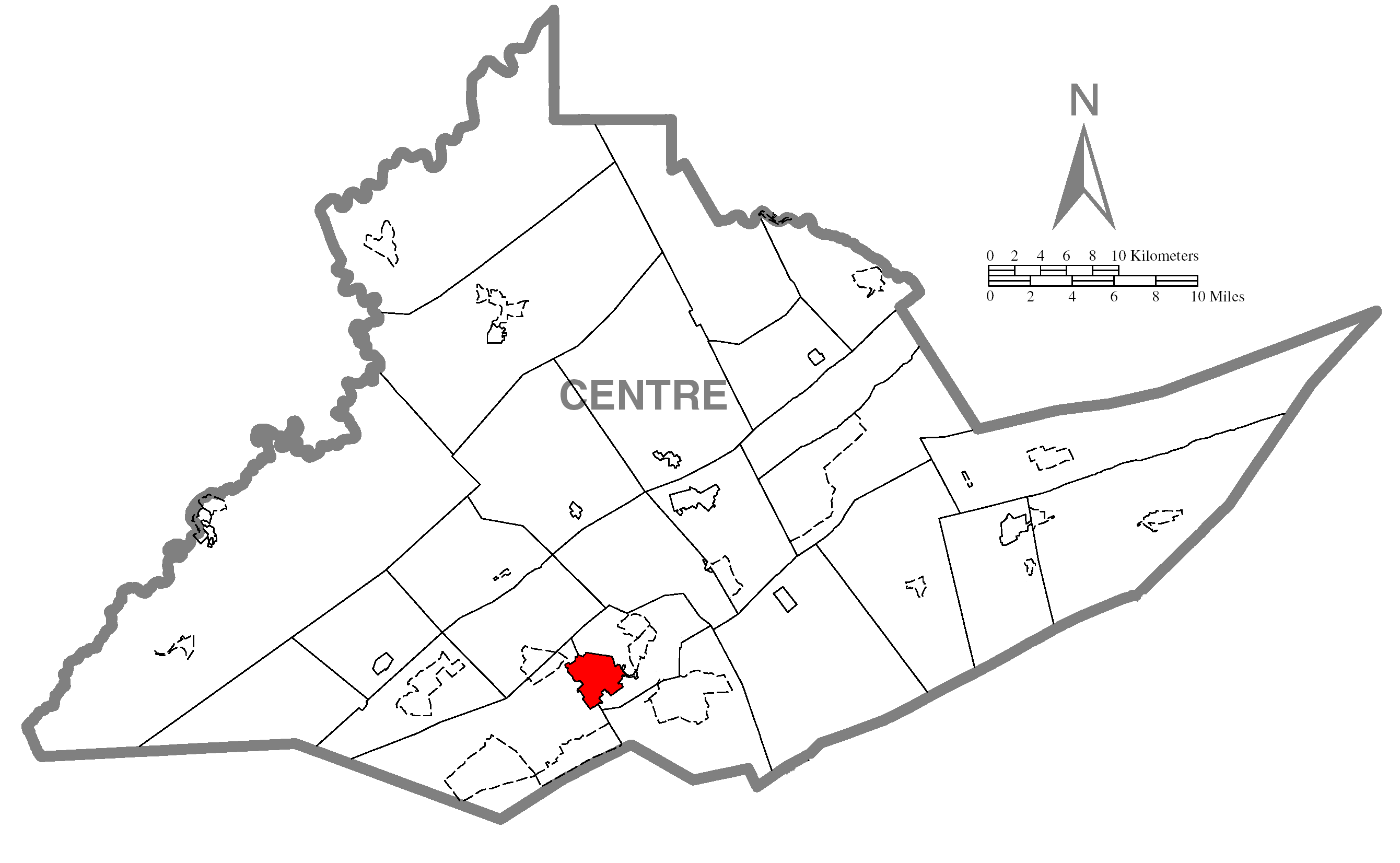 A map of Centre County showing State College, Pennsylvania (alternate) highlighted on the map.